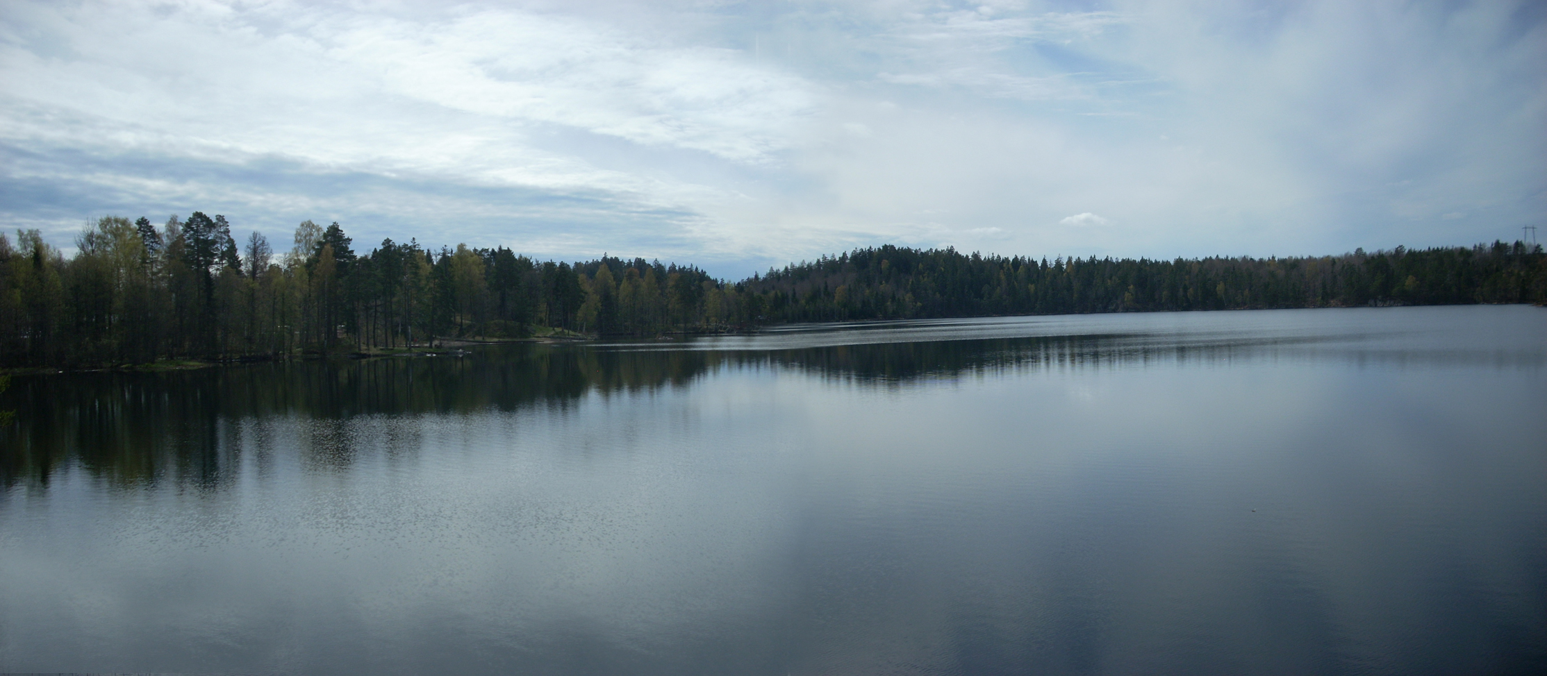 Sørsvann lake in Arendal, Norway